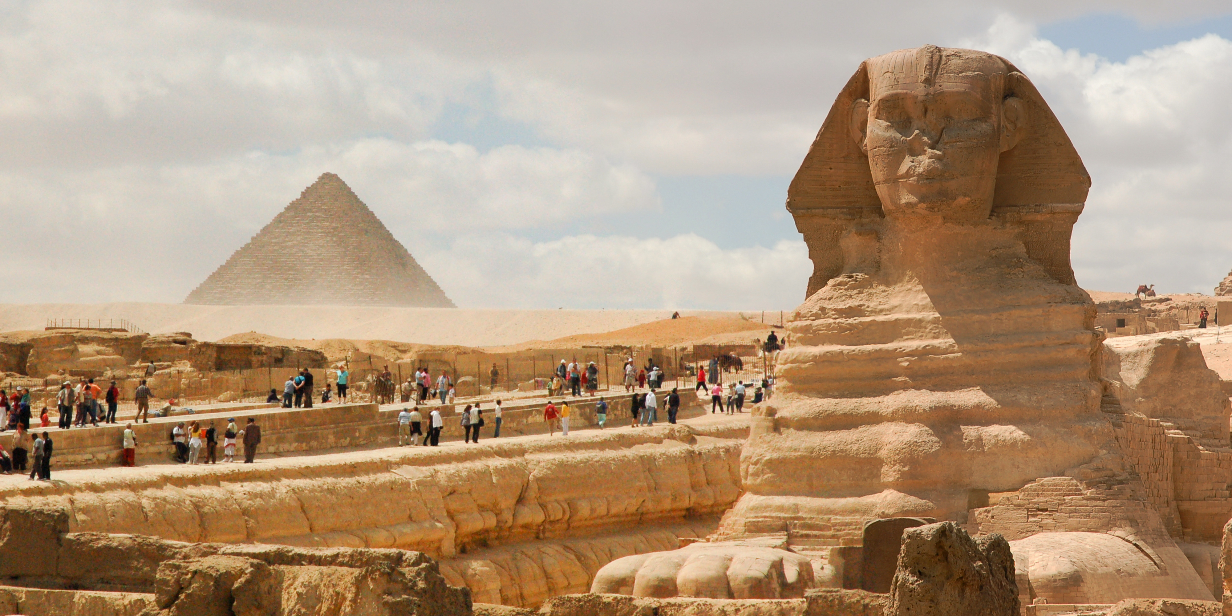 Great Sphinx of Giza (foreground) Pyramid of Menkaure (background). Cairo, Egypt, North Africa.